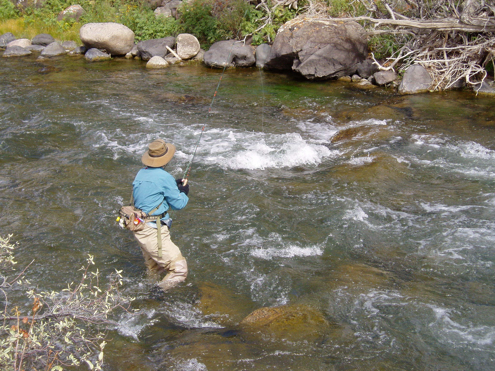 Nymphing The Gardner River, Yellowstone National Park, September 2005